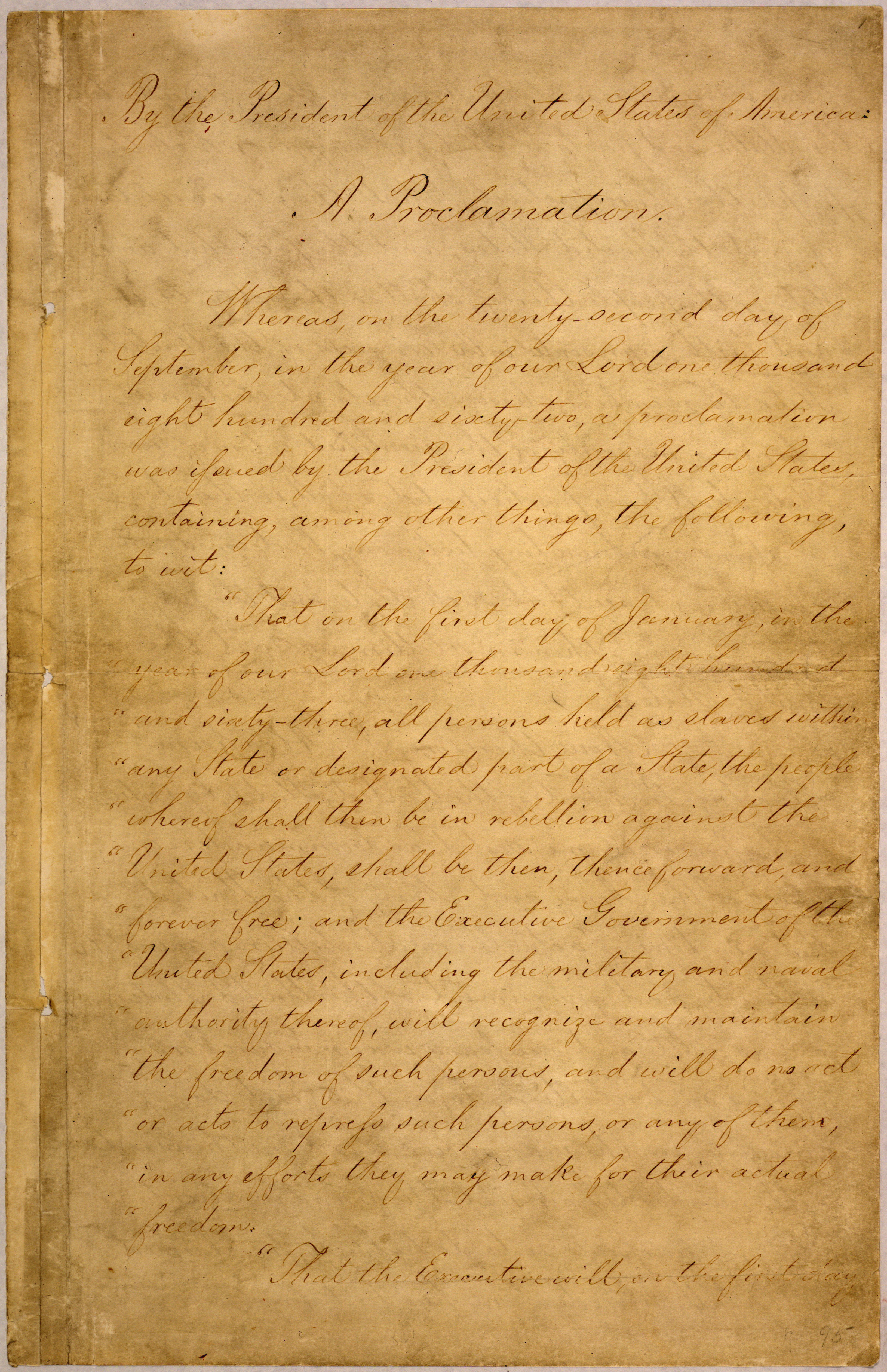 Initially, the Civil War between the North and the South was fought by the North to prevent the secession of the South and preserve the Union. Ending slavery was not a goal. That changed on September 22, 1862, when President Abraham Lincoln issued his Preliminary Emancipation Proclamation, which stated that slaves in those states or parts of states still in rebellion as of January 1, 1863, would be free. One hundred days later Lincoln issued the Emancipation Proclamation declaring “that all persons held as slaves” within the rebellious areas “are, and henceforward shall be, free.” Lincoln’s bold step was a military measure by which he hoped to inspire the slaves in the Confederacy to support the Union cause. Because it was a military measure, the proclamation was limited in many ways. It applied only to states that had seceded from the Union, and left slavery untouched in the border states. Although the Emancipation Proclamation did not end slavery, it did fundamentally transform the character of the war. Henceforth, every advance of Federal troops expanded the domain of freedom. Moreover, the proclamation announced the acceptance of black men into the Union Army and Navy. By the end of the war, almost 200,000 black soldiers and sailors had fought for the Union and their own freedom. African Americans; Politics and government; Proclamations; Slavery; Slaves--Emancipation--Southern States; United States--History--Civil War, 1861-1865